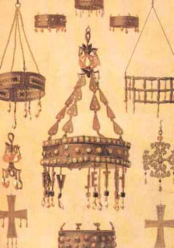 Treasure of Guarrazar. Votive crowns and crosses Tesoro de Guarrazar, litografia siglo XIX